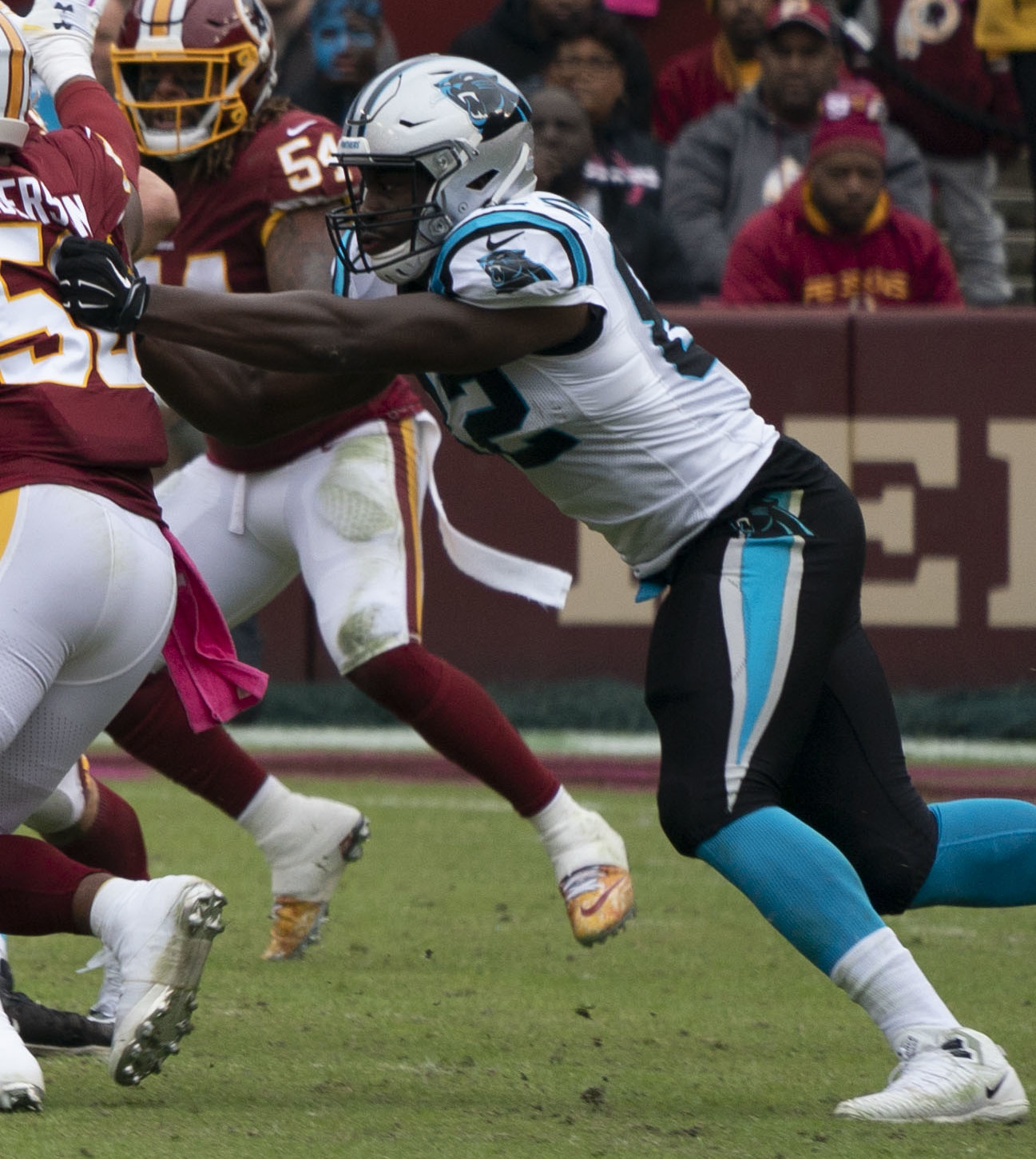 Panthers at Redskins 10/14/18